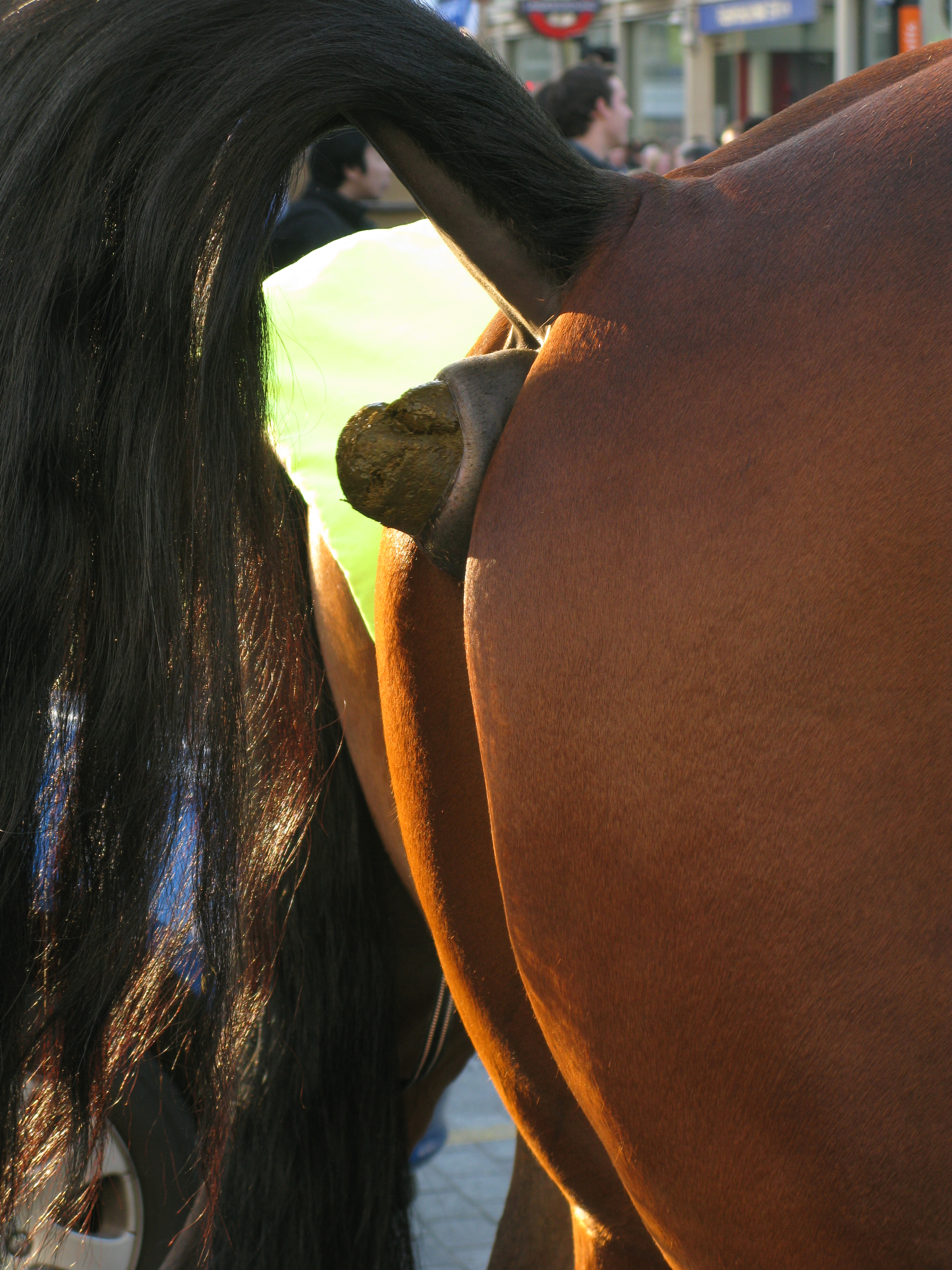 Defecating horse.